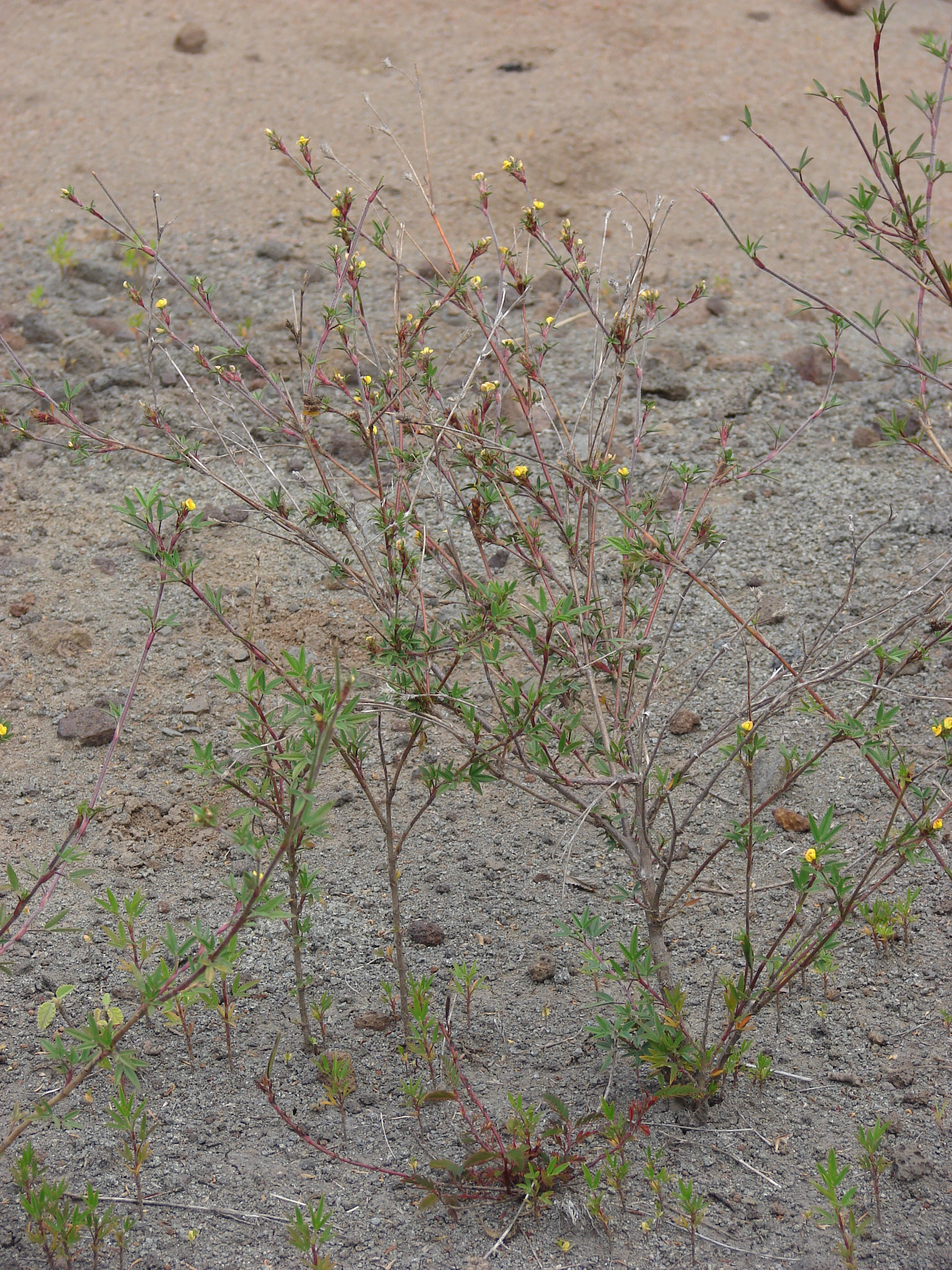 Stylosanthes scabra (habit). Location: Lanai, Keomoku Rd